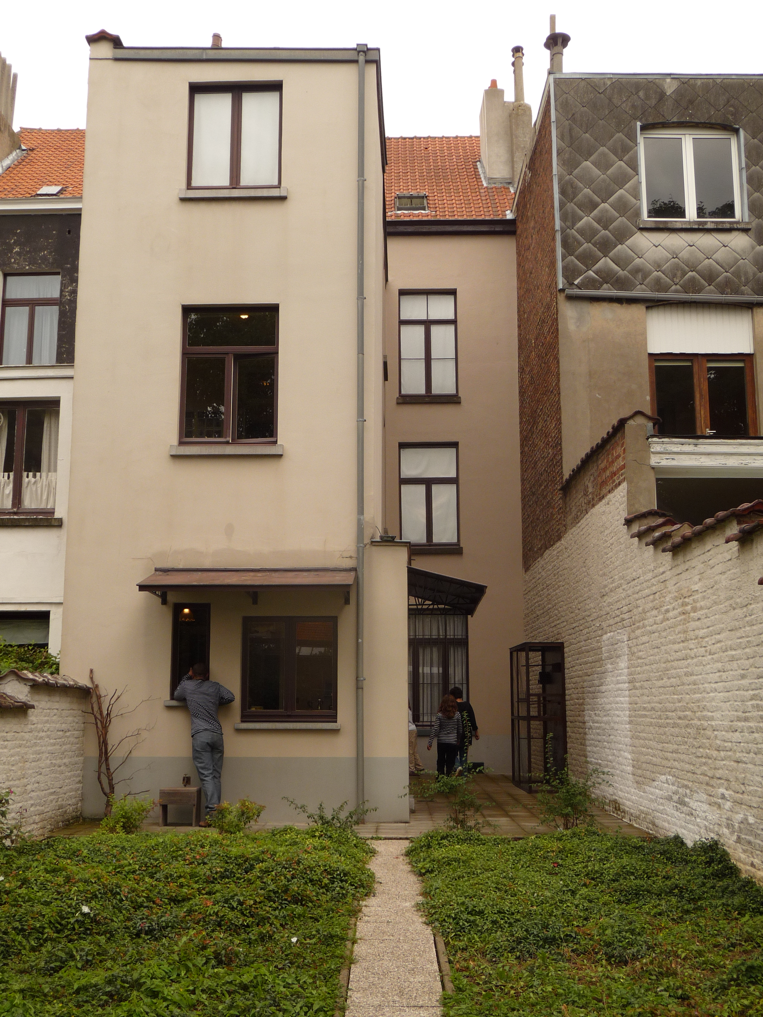 Musée René Magritte in Brussels